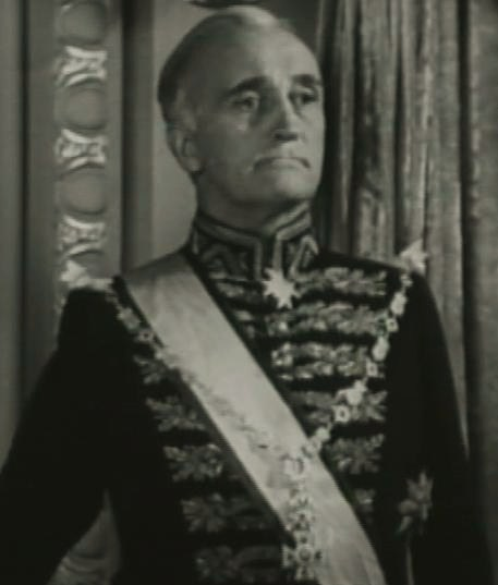 Wyndham Standing in The Son of Monte Cristo (1940) - cropped screenshot